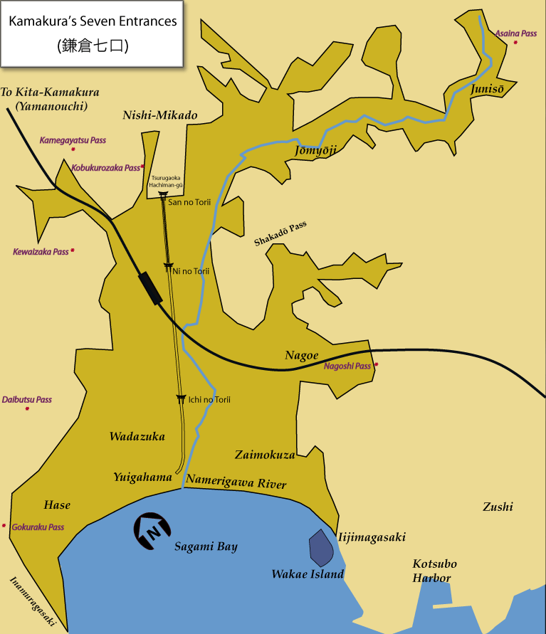 A map of Kamakura made with Illustrator with the position of its Seven Entrances (鎌倉七口) When Nitta Yoshisada attacked Kamakura in 1333, he tried to force his way through the five passes on the north-west of the city, Gokuraku Pass, Daibutsu Pass, Kewaizaka Pass, Kamegayatsu Pass and Kobukurozaka Pass.